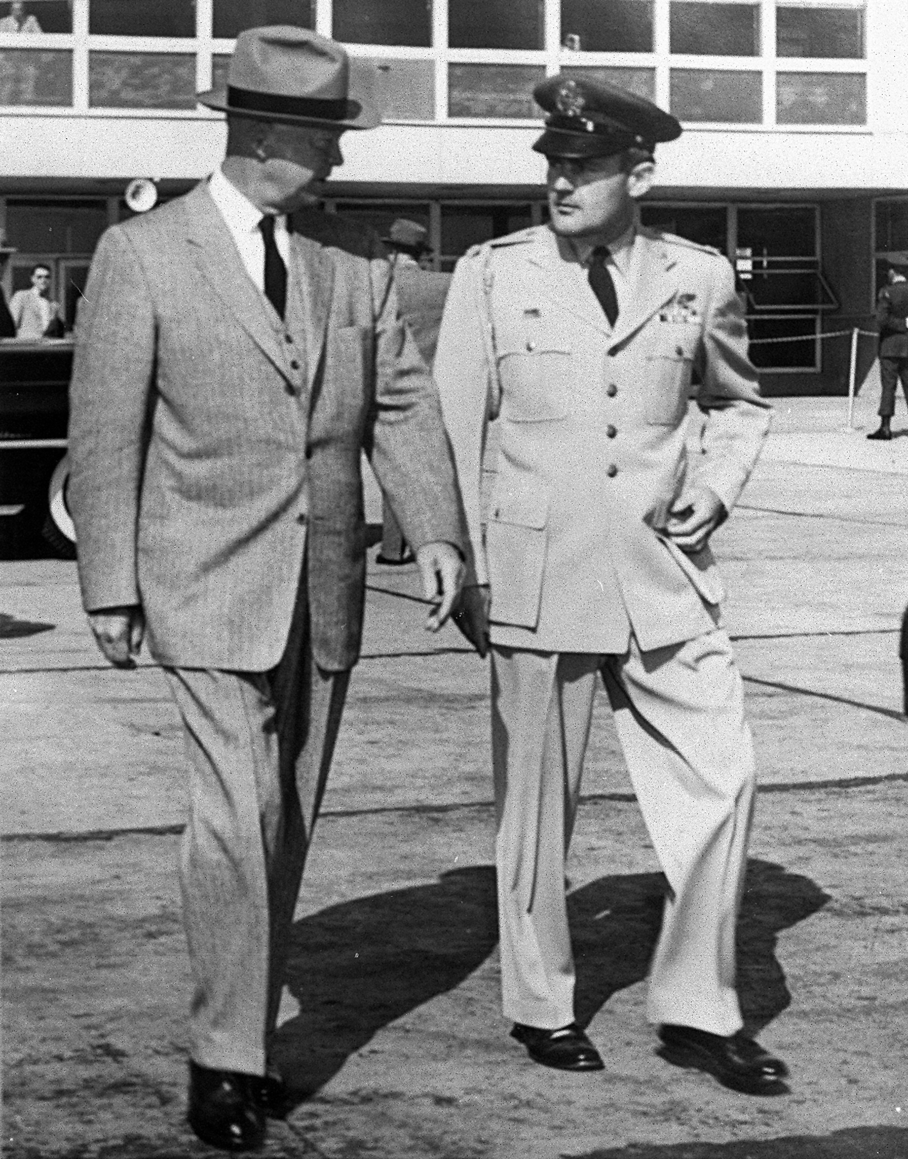 William W. Thomas was a pilot for President Eisenhower flying Columbine in 1953. Columbine and an Eastern Airline flight having the same call sign shared the same aerospace. The call sign "Air Force One" was used after the incident.